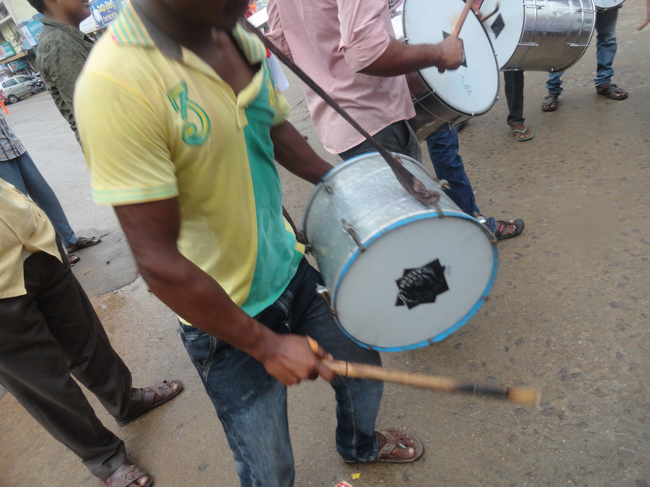 వినాయక చవితి గణేష్ ఊరేగింపులో వనస్థలిపురం. 3